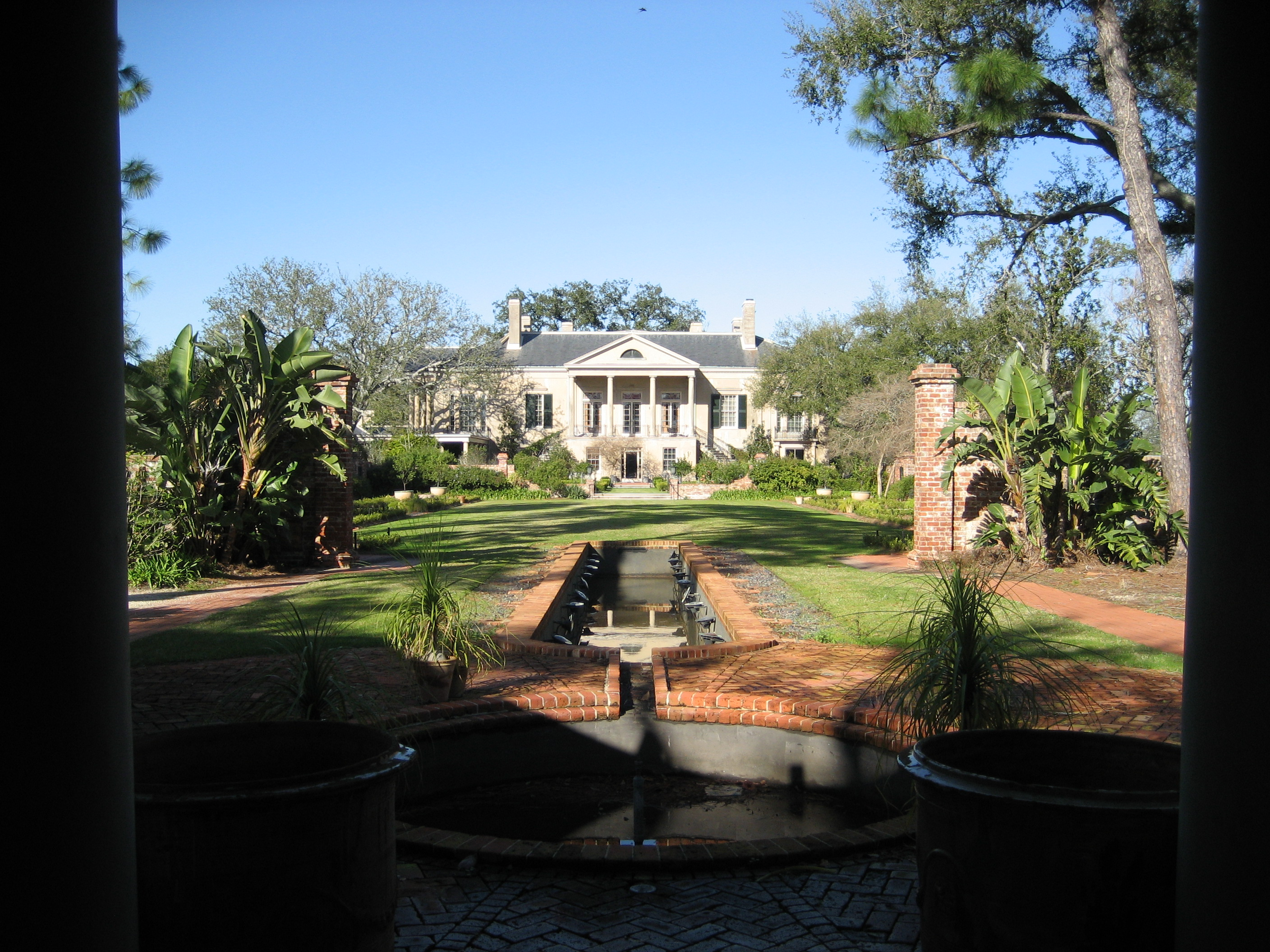 Longue Vue House & Gardens, New Orleans